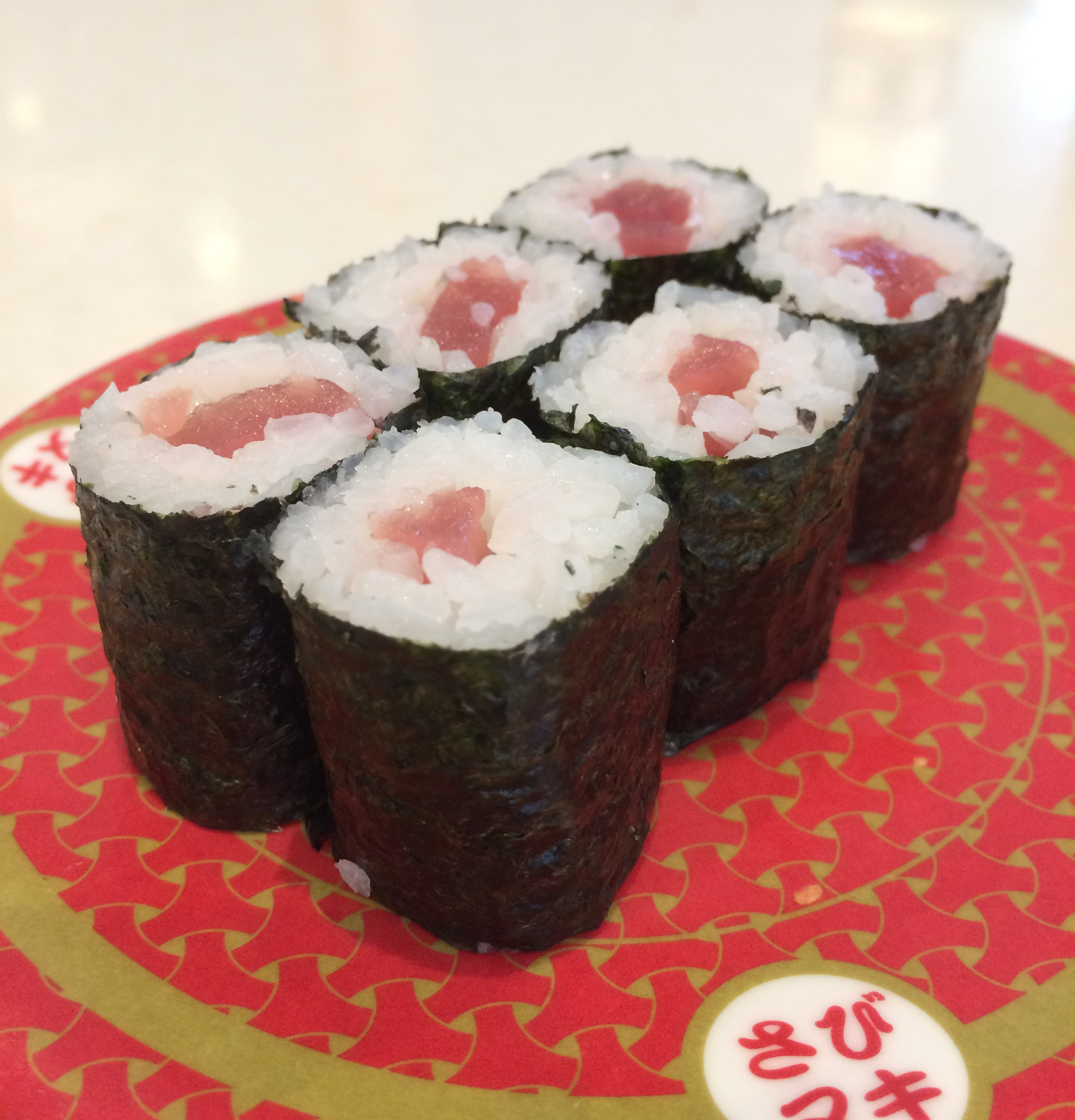 Sample of conveyor belt sushi in Japan